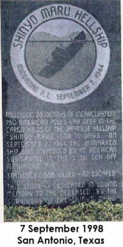 Plaque in San Antonio, Texas dedicated to the survivors of the P.O.W. Hell Ship Shinyo Maru, sunk by USS Paddle (SS-263) on the 54 anniversary, 7 September 1998.